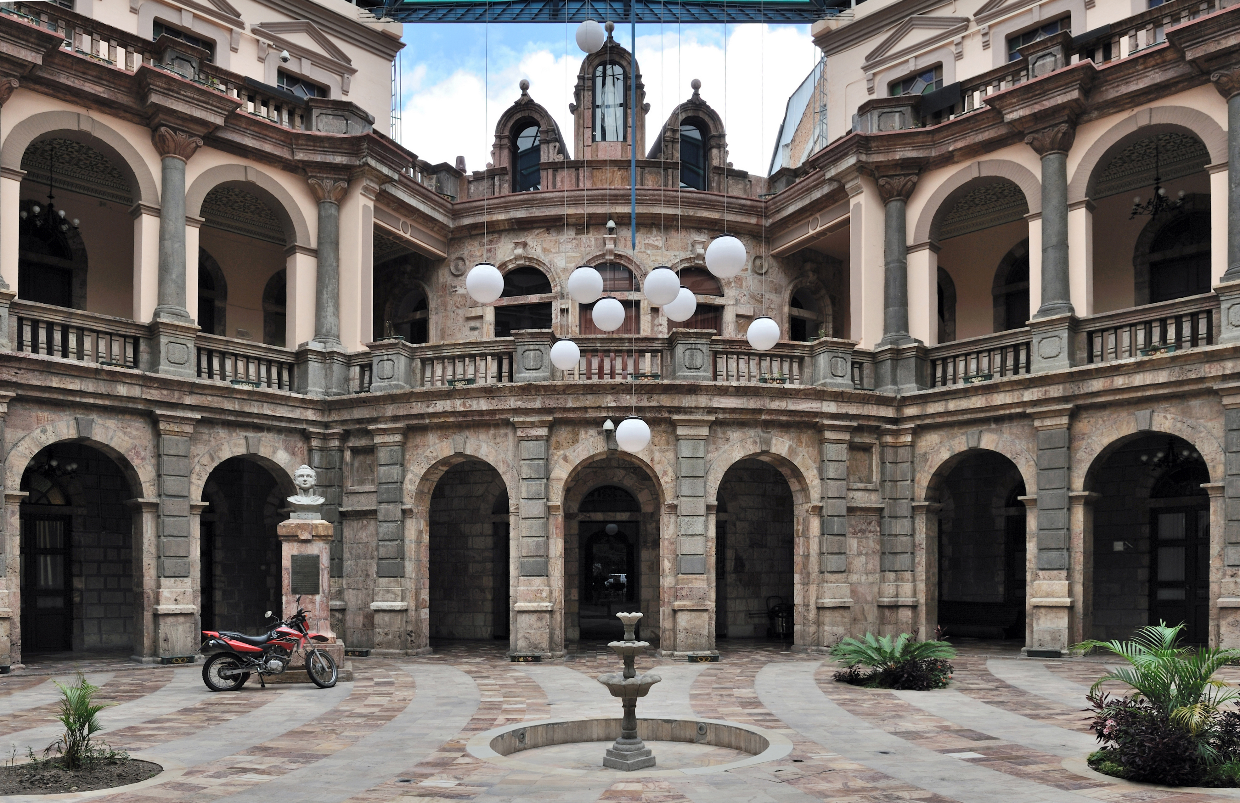 Cuenca, Ecuador: Supreme Court of Justice.